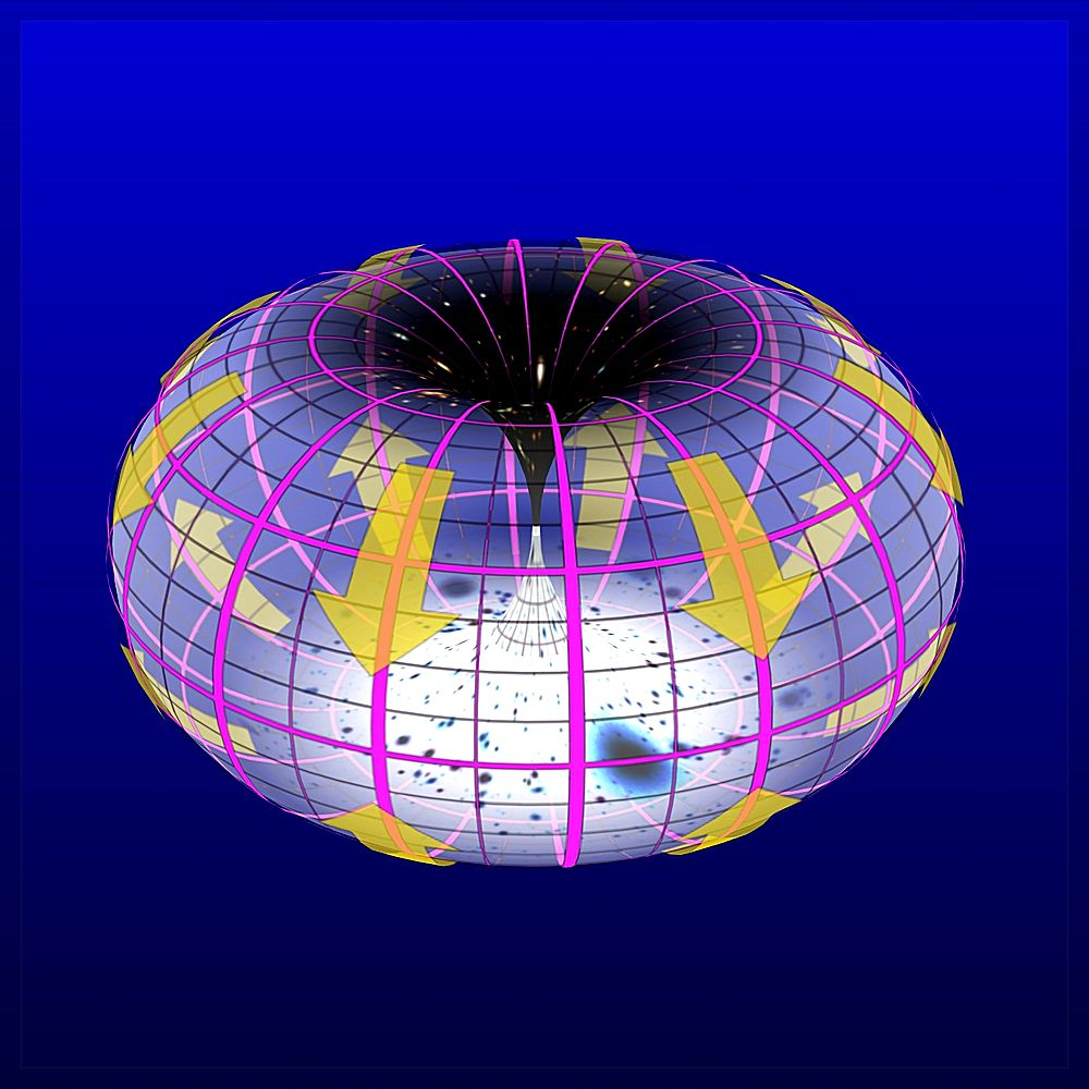 This is a visualization of the Big Bagel Theory by Howard Bloom. The illustration was created by Bryan Brandenburg.